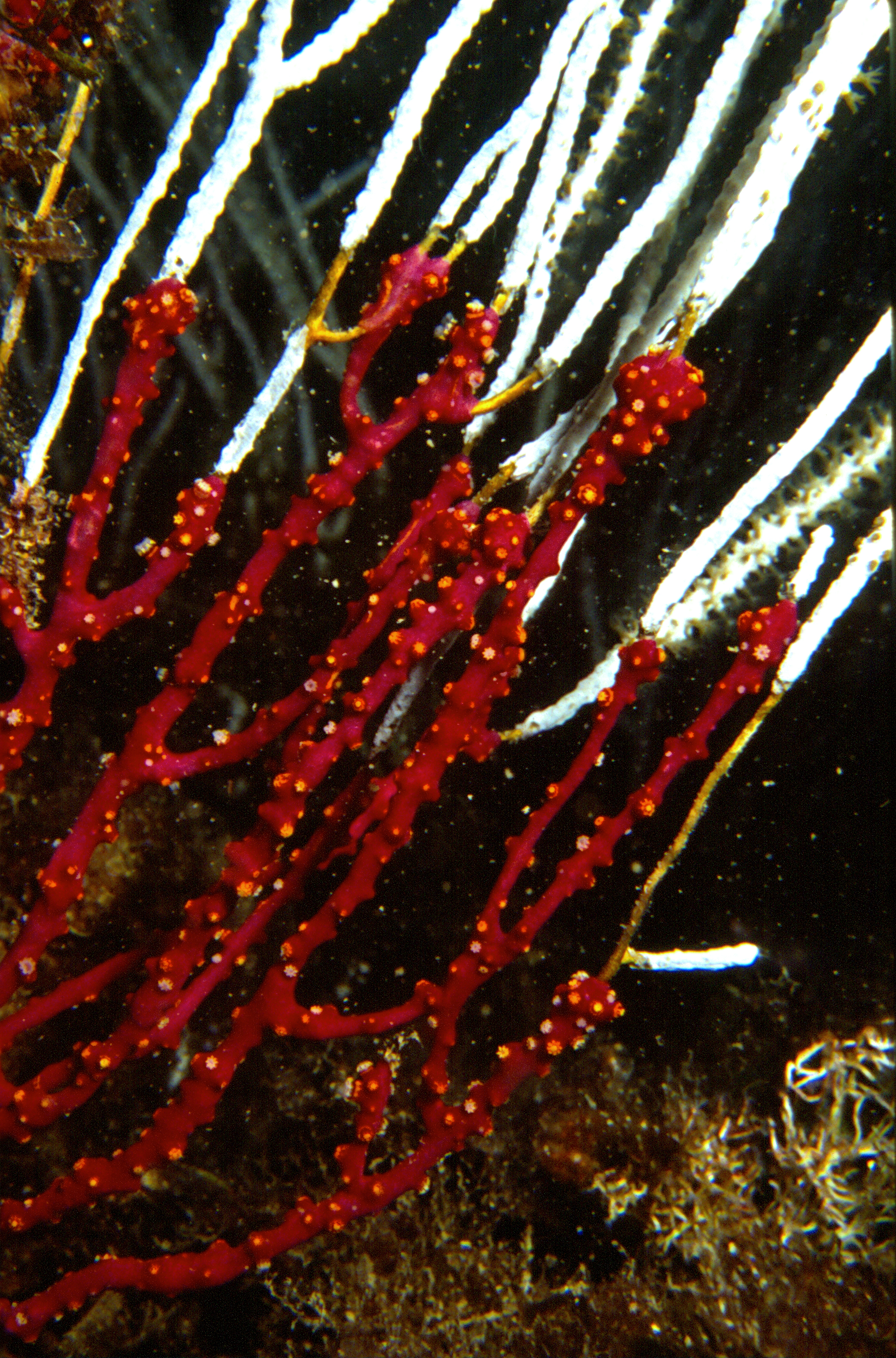 Alcyonium coralloides (Pallas, 1766), formerly called Parerythropodium coralloides Pallas, 1766, Eunicella singularis (Esper, 1794) - Banyuls-sur-Mer, Sec de Rédéris : 08/82